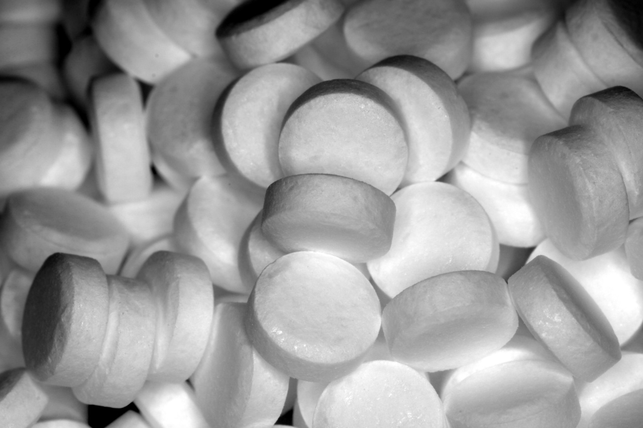 Some artificial sweetener in the kitchen.